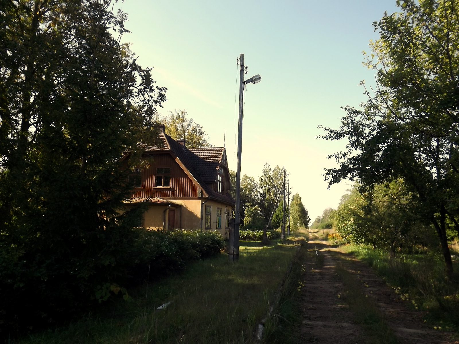 Pieturas punkts Upenieki 12.09.2013.